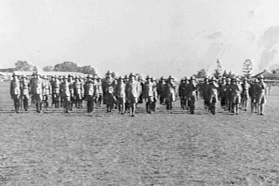 Archerfield, Qld. Mid-1940. A parade at No. 2 Elementary Training School (EFTS), at which the Governor-General, His Excellency Lord Gowrie VC PC GCMG CB DSO LLD, took the salute. Note the De Havilland DH82 Tiger Moth trainer aircraft in the background, and the early issue RAAF uniform. (Donor R. Griffith)